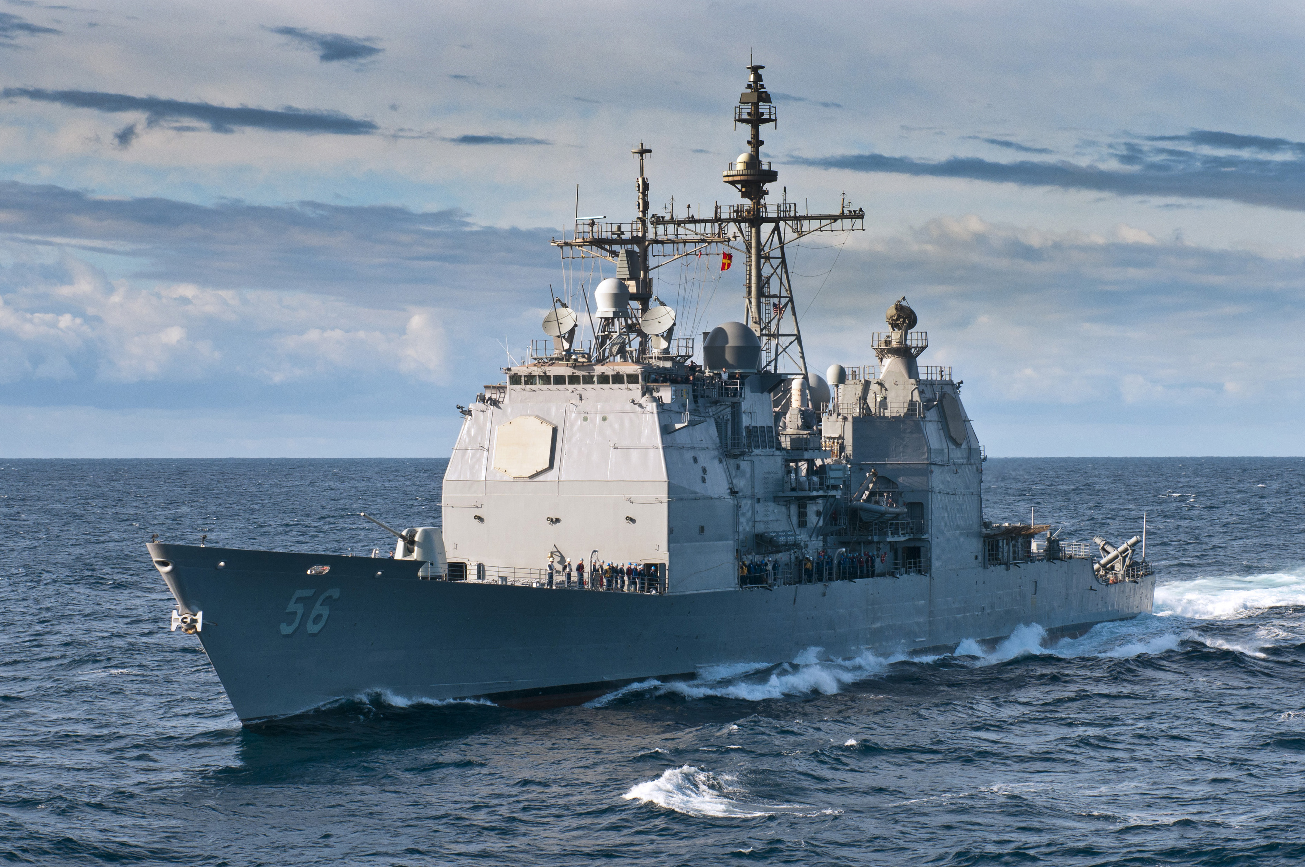 ATLANTIC OCEAN (June 6, 2012) The guided-missile cruiser USS San Jacinto (CG 56) approaches the amphibious assault ship USS Kearsarge (LHD 3) for a fueling at sea. (U.S. Navy photo by Mass Communication Specialist 1st Class Tommy Lamkin/Released) 120606-N-UM734-051